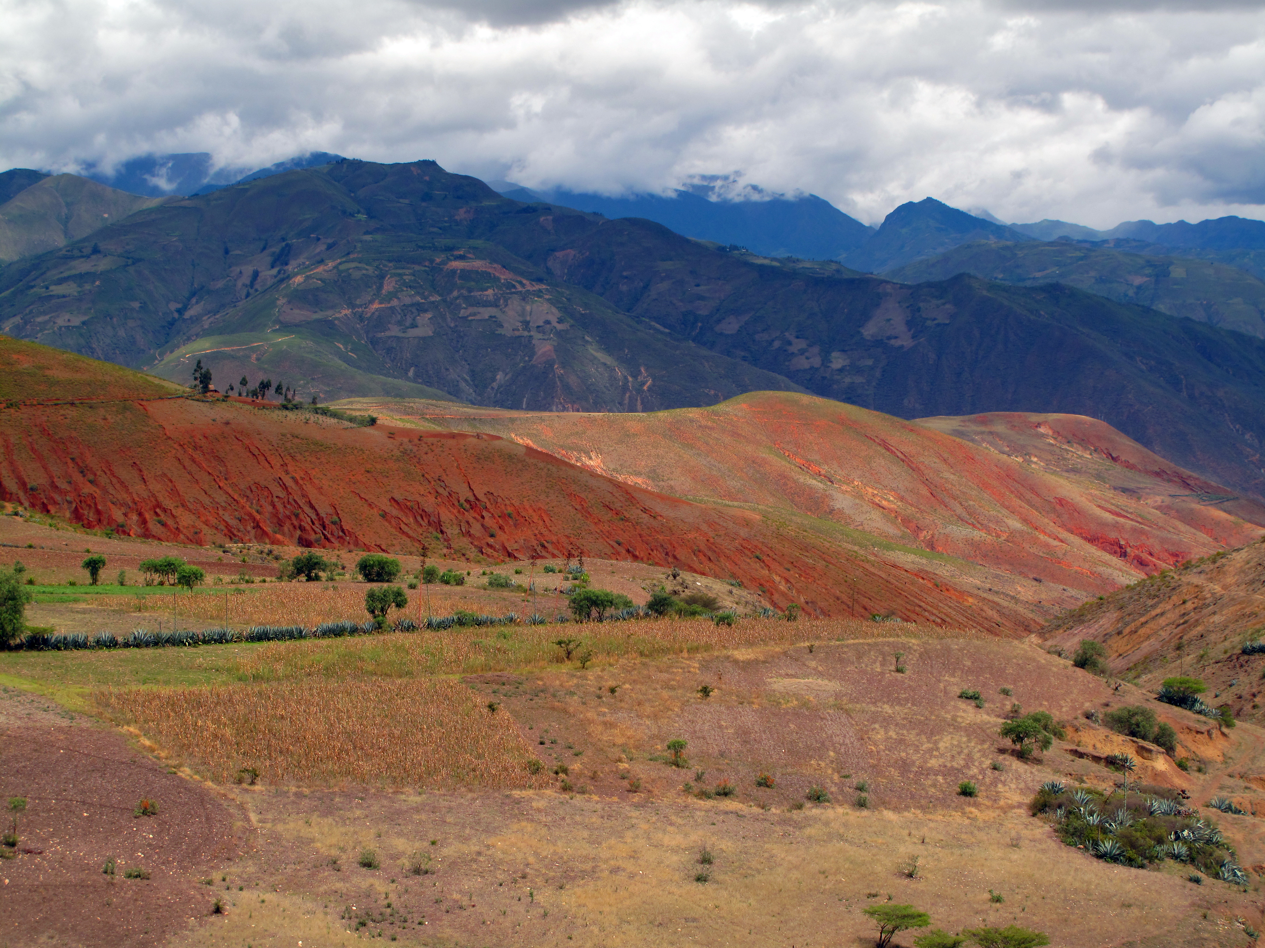 Massive soil erosion south of Huancabamba, Piura, Peru